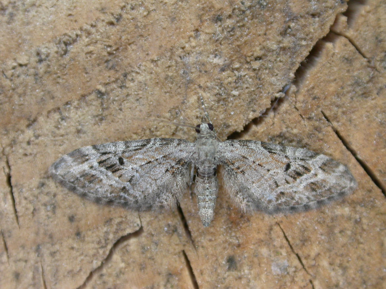 Eupithecia exiguata (Hübner, 1809-13), Mottled Pug, to MV light, Hellerup, Denmark, 26 May 2003